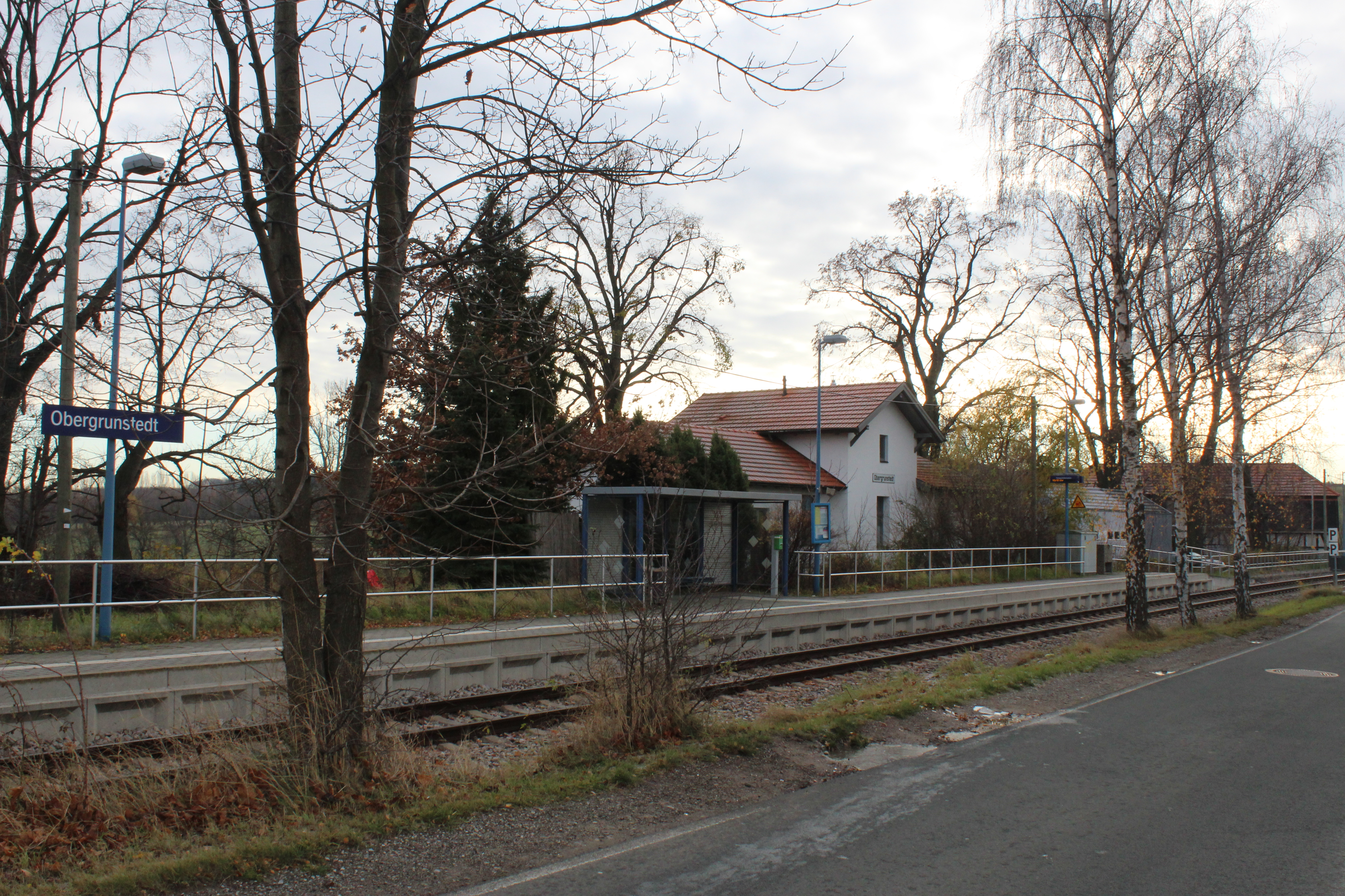 train station Obergrunstedt